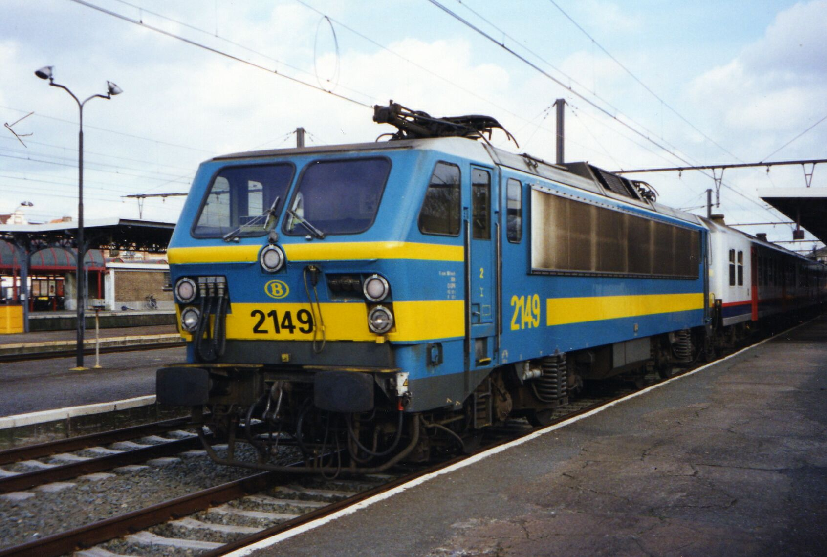 Electric locomotive 2149 of the National Society of the Belgian Railways in the station of the town Dendermonde. In the locomotive number, 21 stands for series (type) and 49 for the number of this particular locomotive inside the series.